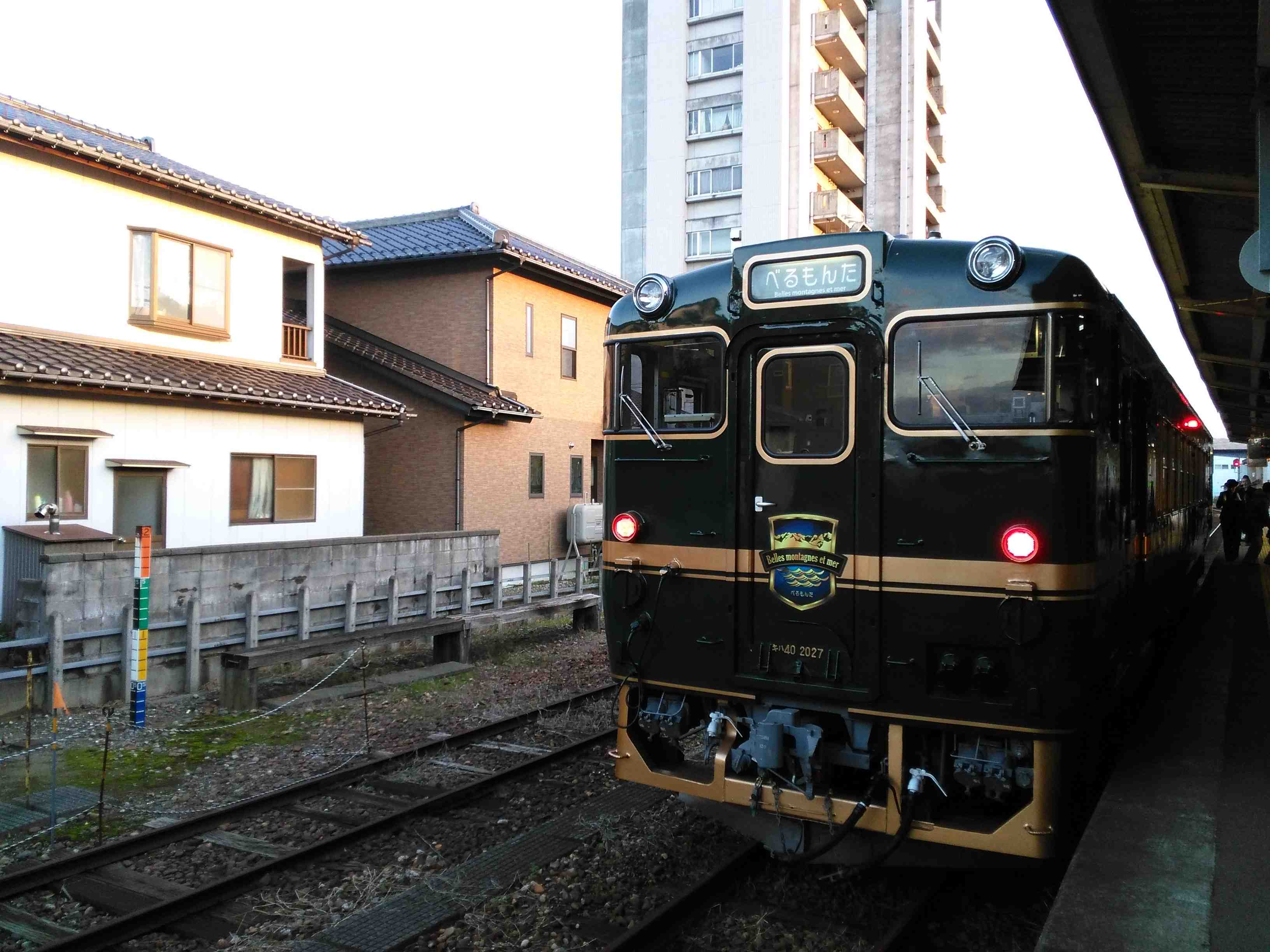 The JR West KiHa 40 "Belles Montagnes el Mer" sightseeing train on the Himi Line in Japan